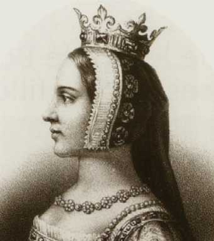 Bonne of Luxembourg